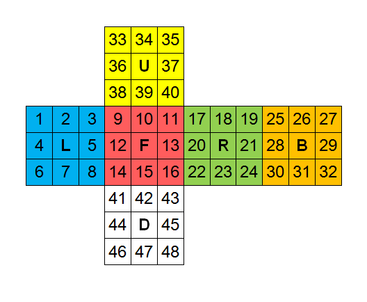 3x3x3 Rubik's cube facelet